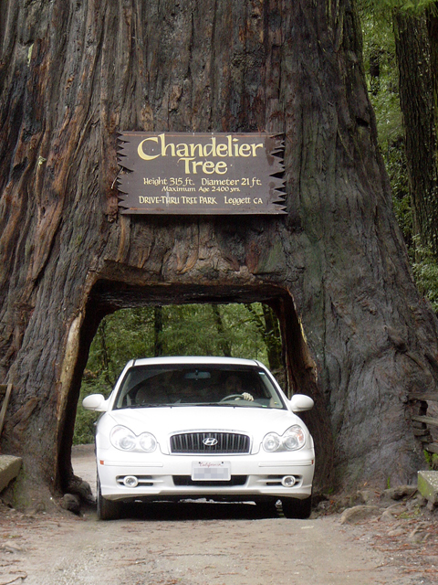 Car in the Chandelier Tree, a native Sequoia drive-through tree in Leggett, California.